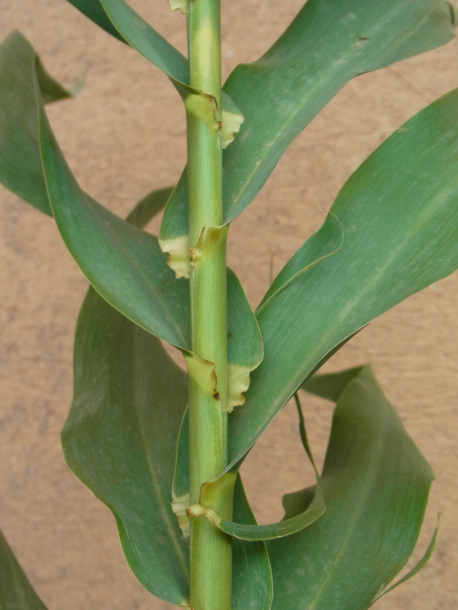 Giant Cane (Arundo donax), Cales Coves, Menorca